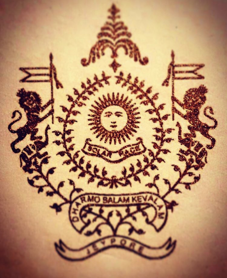 Jeypore Rajyam Coat of Arms